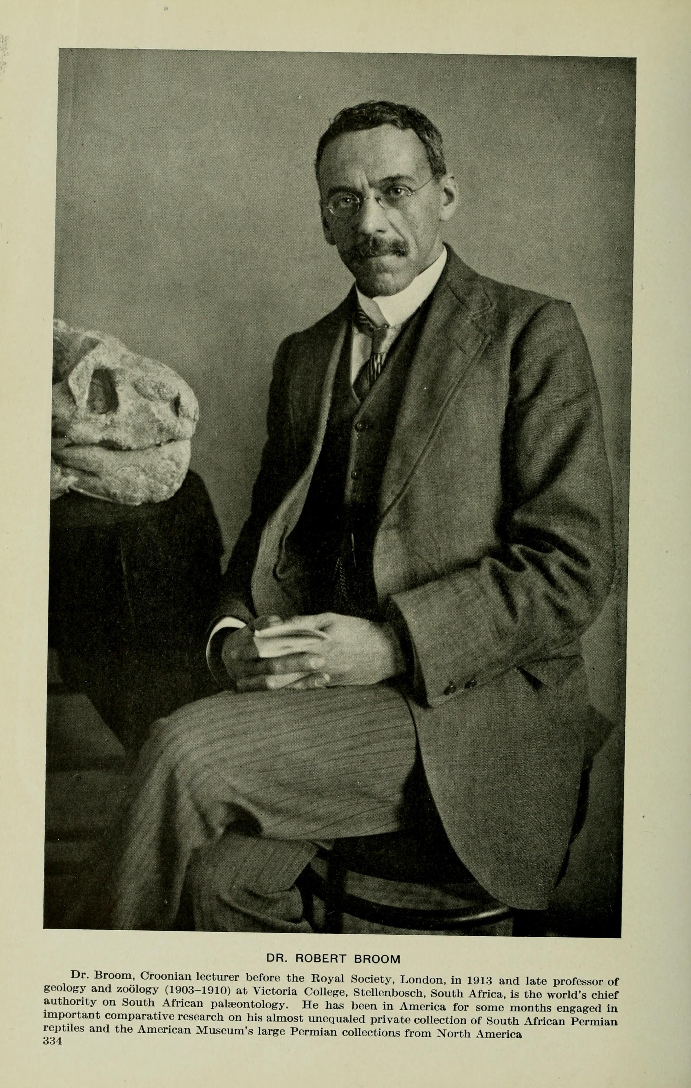 Dr. Robert Broom Title: The American Museum journal Year: c1900-(1918) (c190s) Authors: American Museum of Natural History Subjects: Natural history Publisher: New York : American Museum of Natural History Text Appearing Before Image: ' Text Appearing After Image: DR. ROBERT BROOM Dr. Broom, Croonian lecturer before the Royal Society, London, in 1913 and late professor of geology and zoology (1903-1910) at Victoria College, Stellenbosch, South Africa, is the world's chief authority on South African palaeontology. He has been in America for some months engaged in important comparative research on his almost unequaled private collection of South African Permian reptiles and the American Museum's large Permian collections from North America